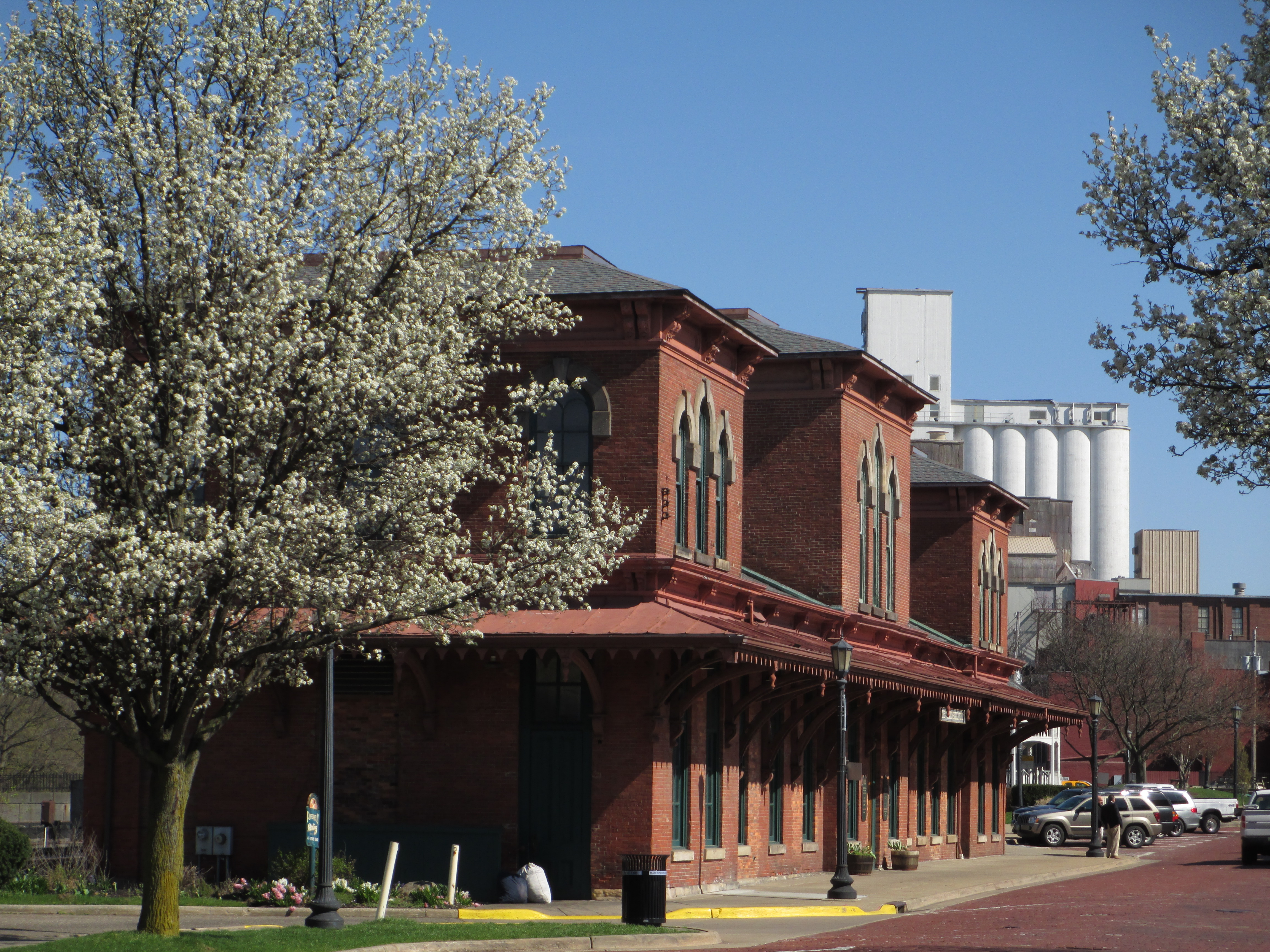 Old Atlantic & Great Western Rail Depot, built in 1875, in downtown Kent, Ohio with the Star of the West silo in the background.